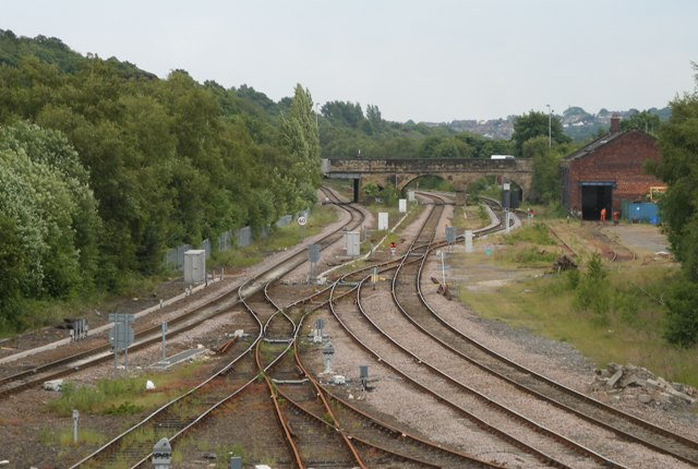 Road over rail The A642 crosses the railway at Horbury Bridge